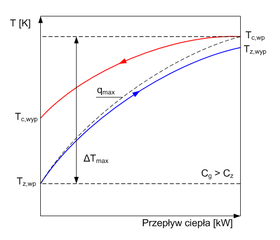 NTU Method - diagram in which cold fluid has the lower heat capacity